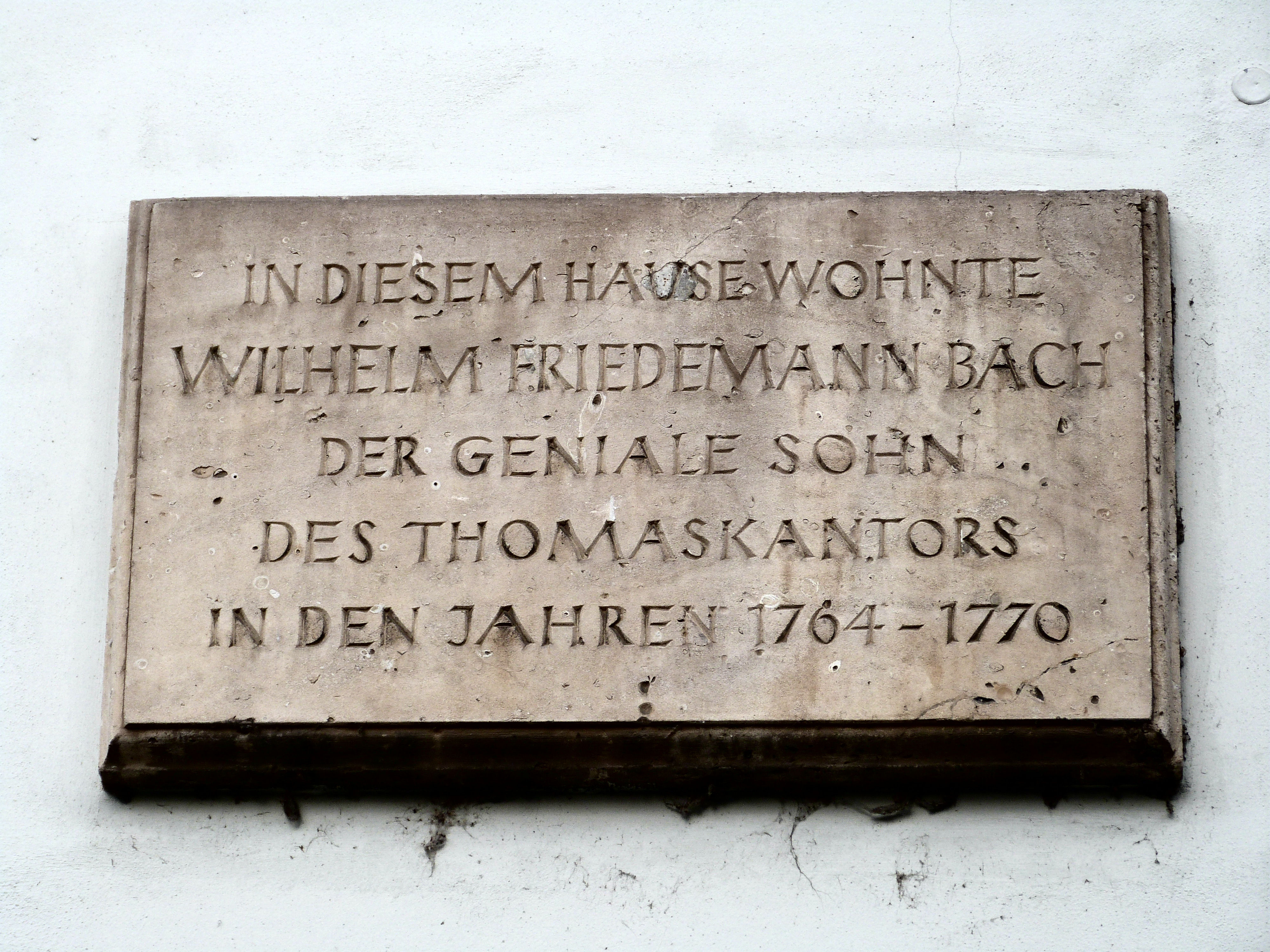 Plaque on the Wilhelm Friedemann Bach House, Halle (Saale)